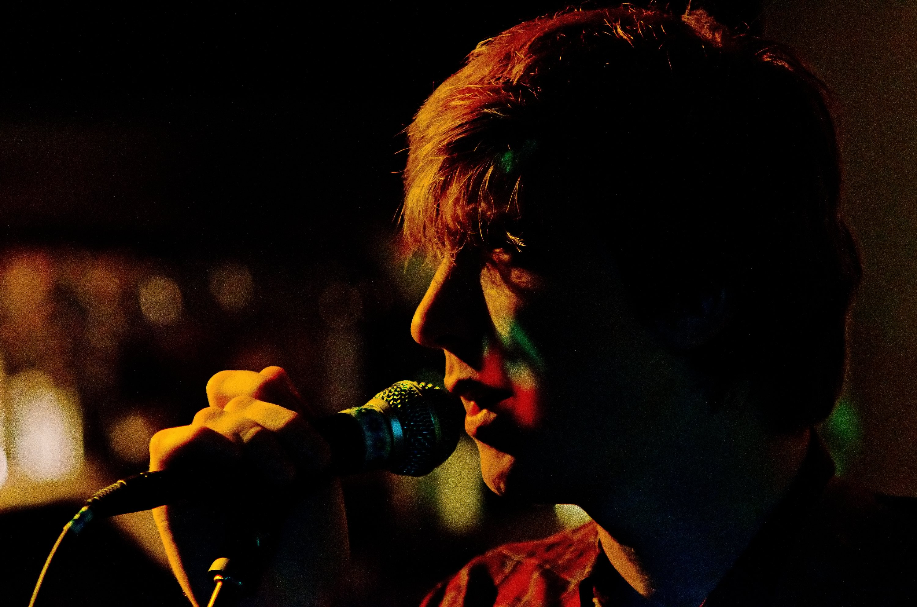 American singer Jeremy Jay performing live at Växjö's Kafé Deluxe on September 16 2011.